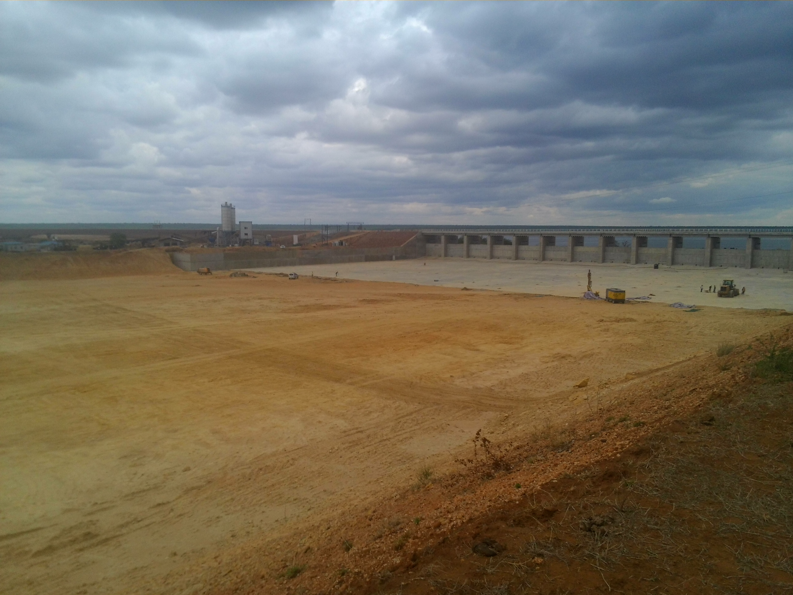 Dam wall of Massingir dam, Mozambique, during the raising of the wall, december 2014